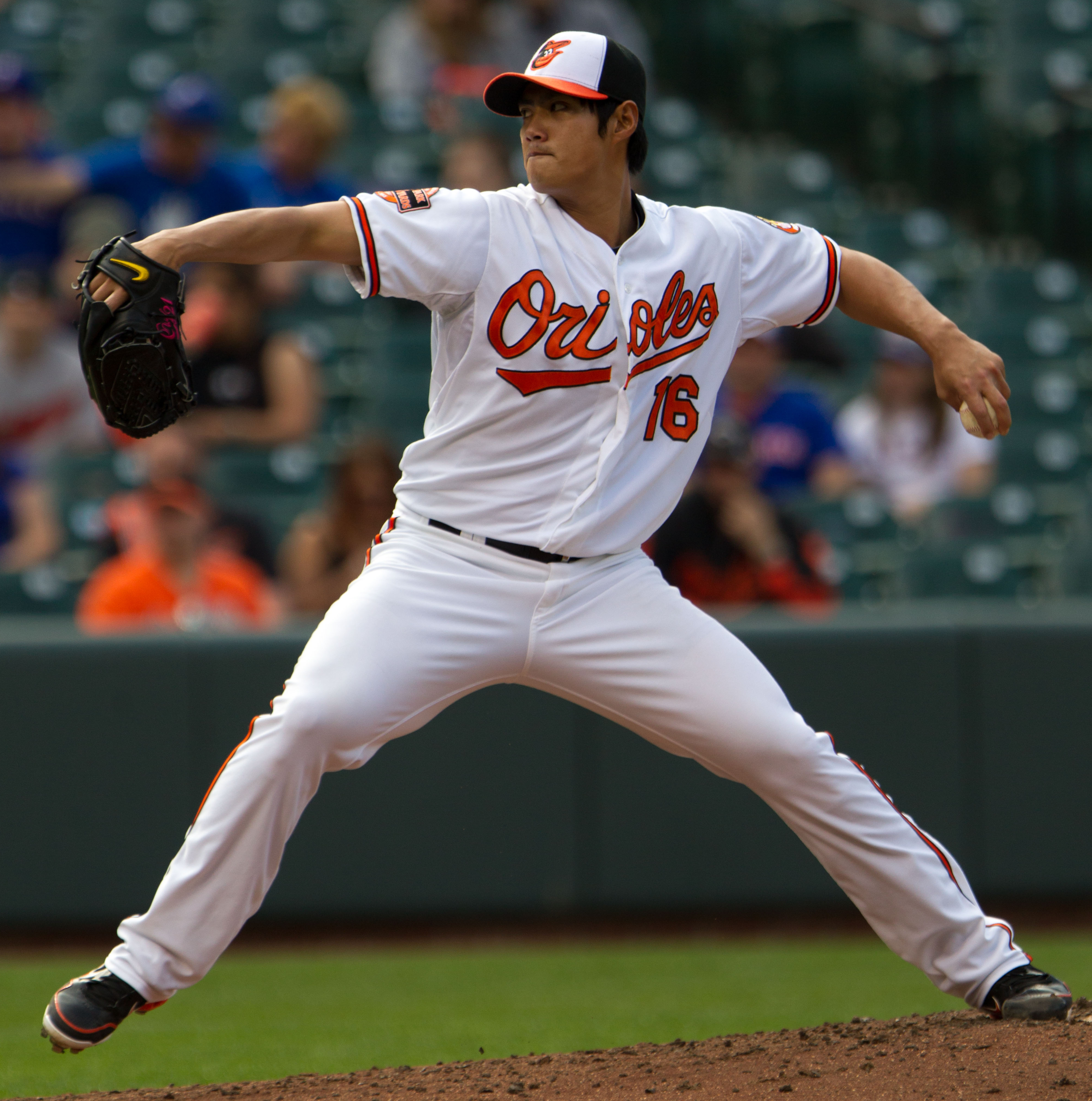 Wei-Yin Chen